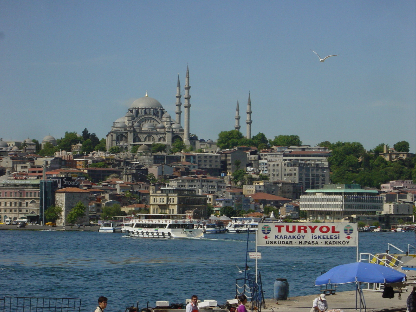 La Moschea di Solimano il Magnifico (Süleymaniye camii) ad Istanbul, vista attraverso il Corno d'oro. [ENG] The Mosque of Suleyman the Great in Istanbul, as seen from the Golden Horn. Foto di: Giovanni Dall'Orto, 26-5-2006.